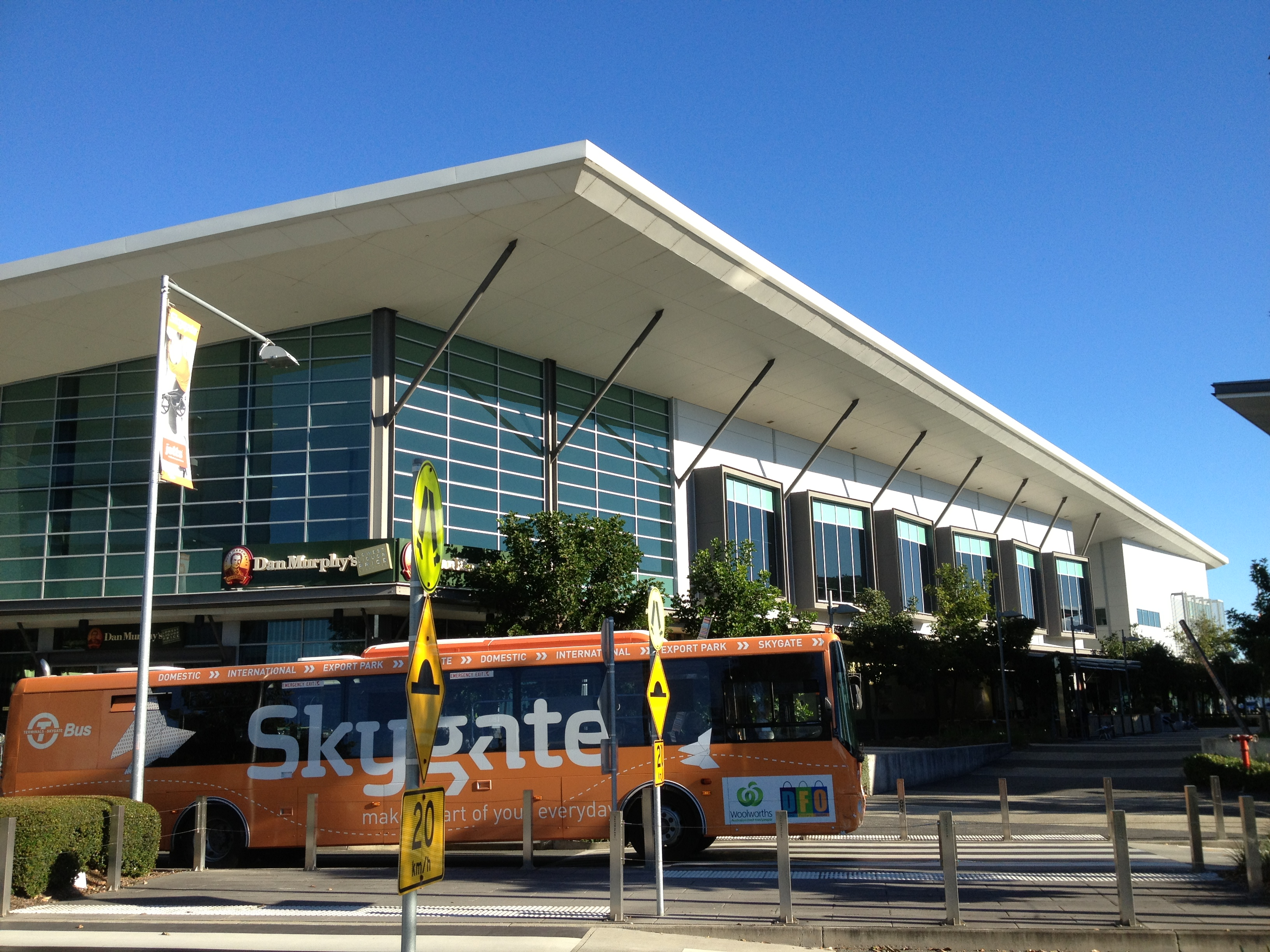 Skygate bus in front of Skygate shopping village, Brisbane Airport, May 2013